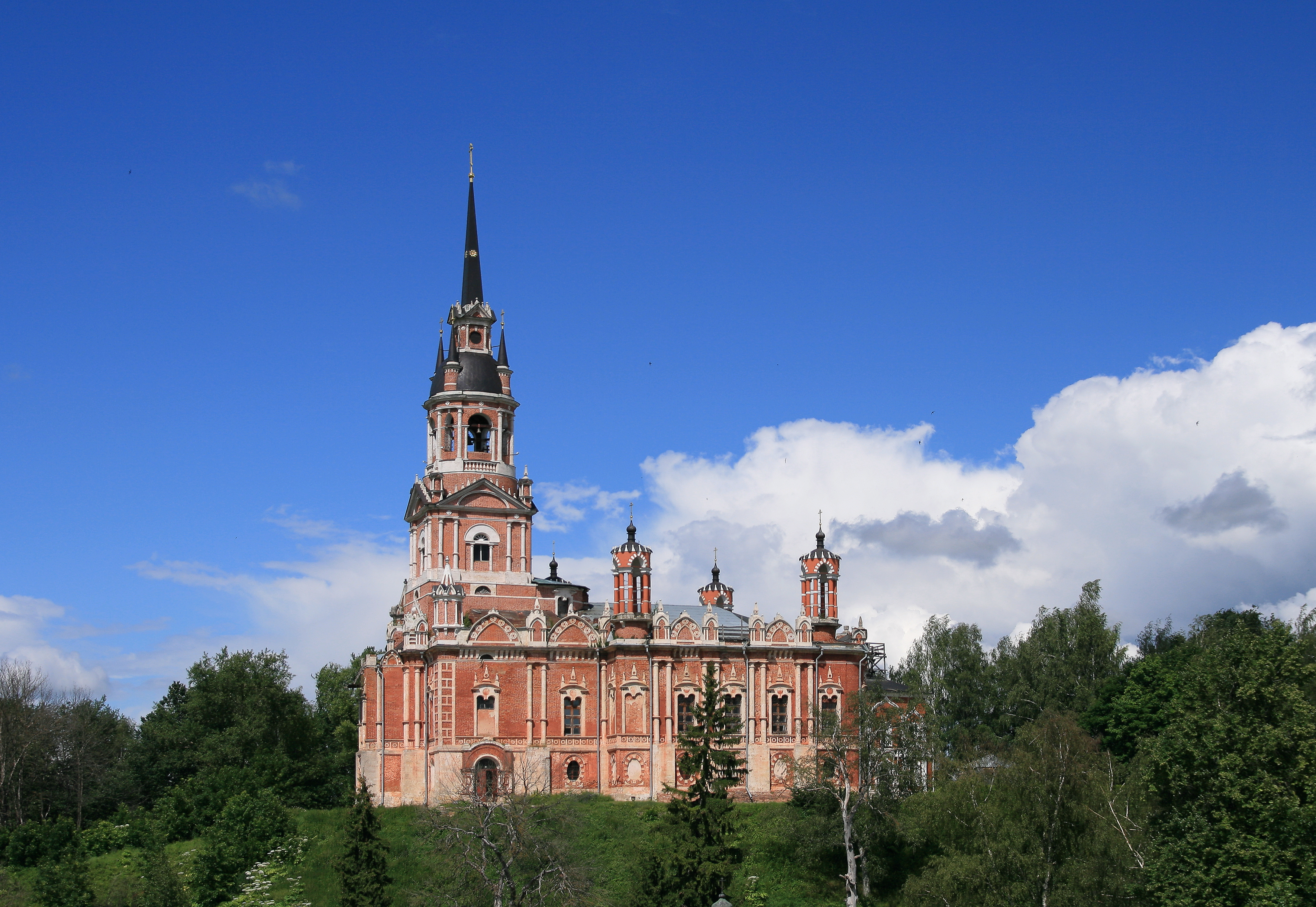 Saint Nicholas Church, 1779-1812, Mozhaysk, Russia